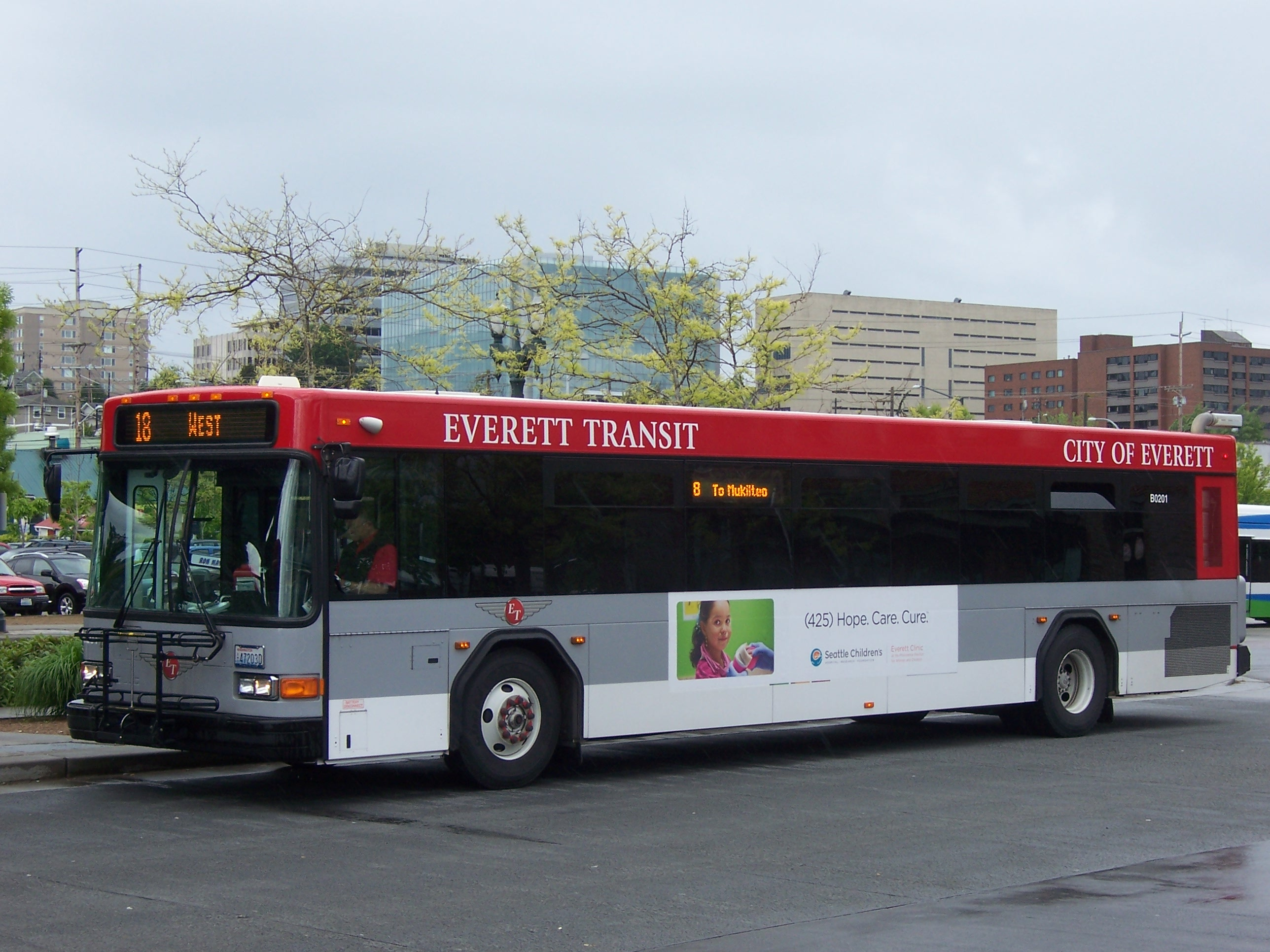 An Everett Transit bus at Everett Station in Everett, Washington, USA. The city skyline can be seen in the background, including parts of the Snohomish County Government Campus.